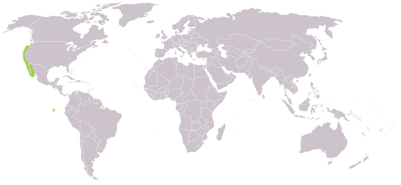 Map created by me to show range of bat ray (Myliobatis californica). Based on Image:BlankMap-World.png